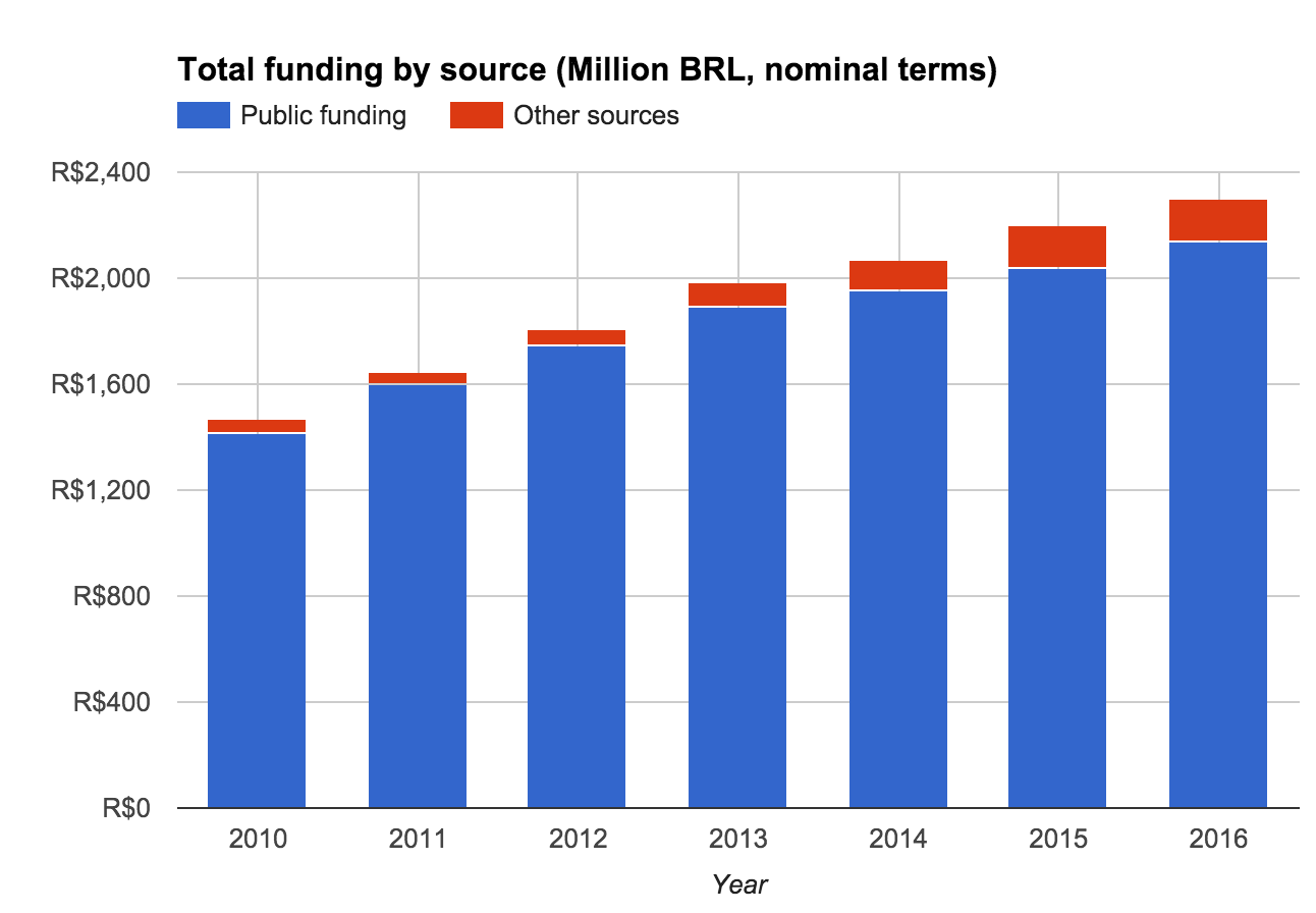 A chart showing the evolution of Unicamp's total budget by source of funding, in nominal BRL terms, obtained from